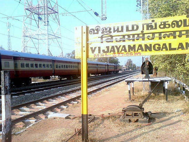 Vijayamangalam Railway Station its located in Voipadi.